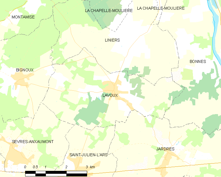 Map of French municipality Lavoux